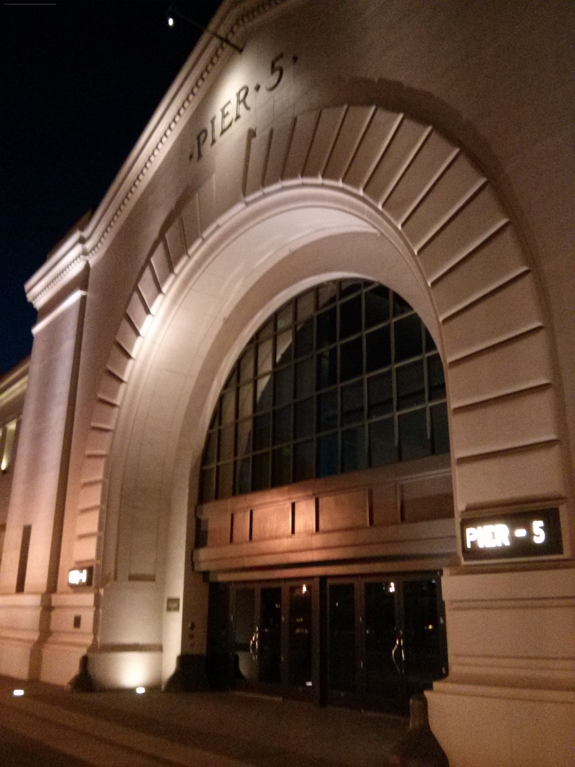 San Francisco Pier 5 at night